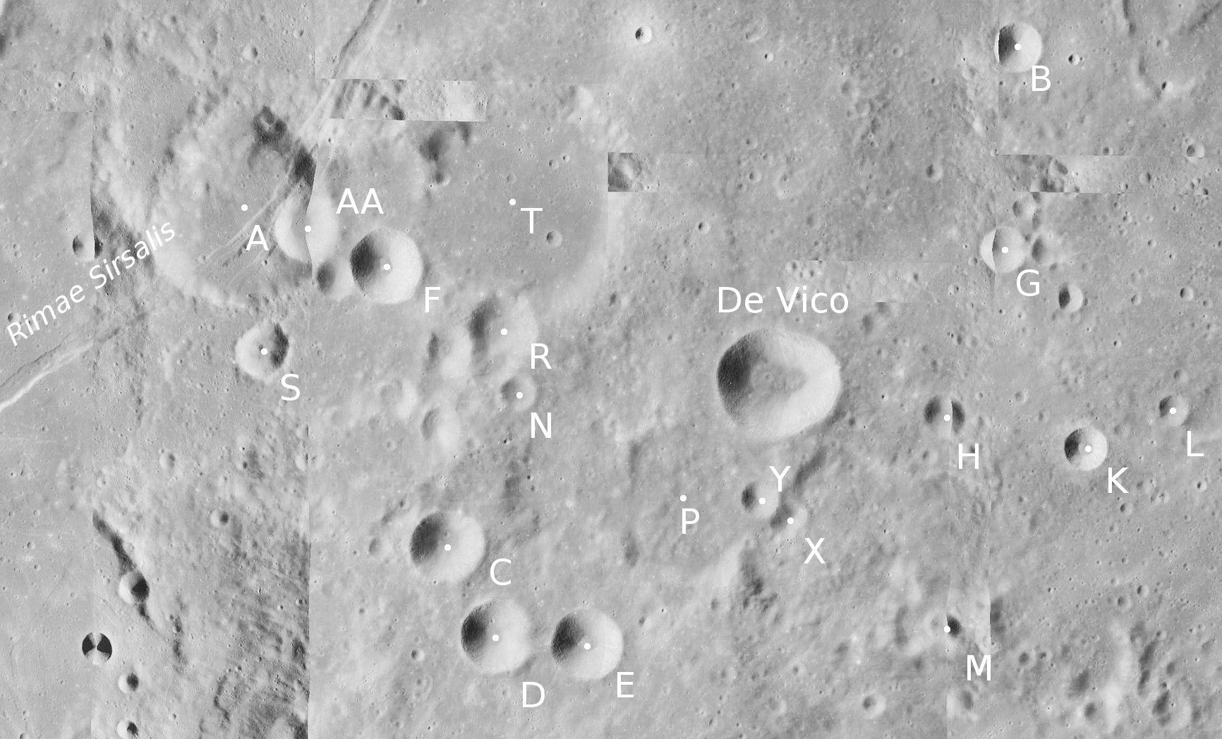 Crater de Vico with satellite features and Rimae Sirsalis (detail of LRO - WAC global moon mosaic; Mercator projection)